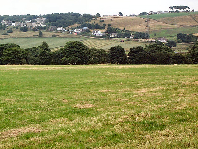 Cottingley Moor and North Bank Road. The trees mark the course of Cottingley Beck, and, beyond, North Bank Road climbs to Noon Nick at the opposite side of the gridsquare. North Bank Road is conjectured to be a continuation on a different alignment of the Lee Lane Roman road.